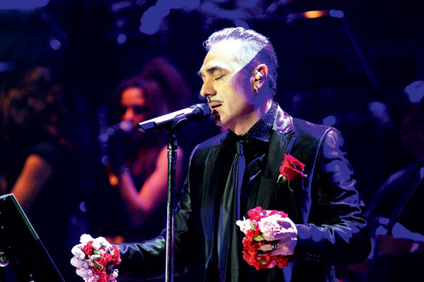 notis live enastro 2014.jpg